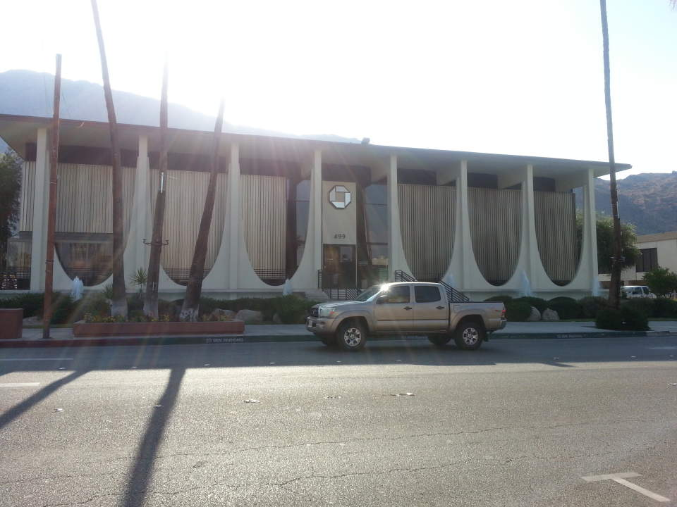 Coachella Valley Savings building in Palm Springs, California, designed by E. Stewart Williams